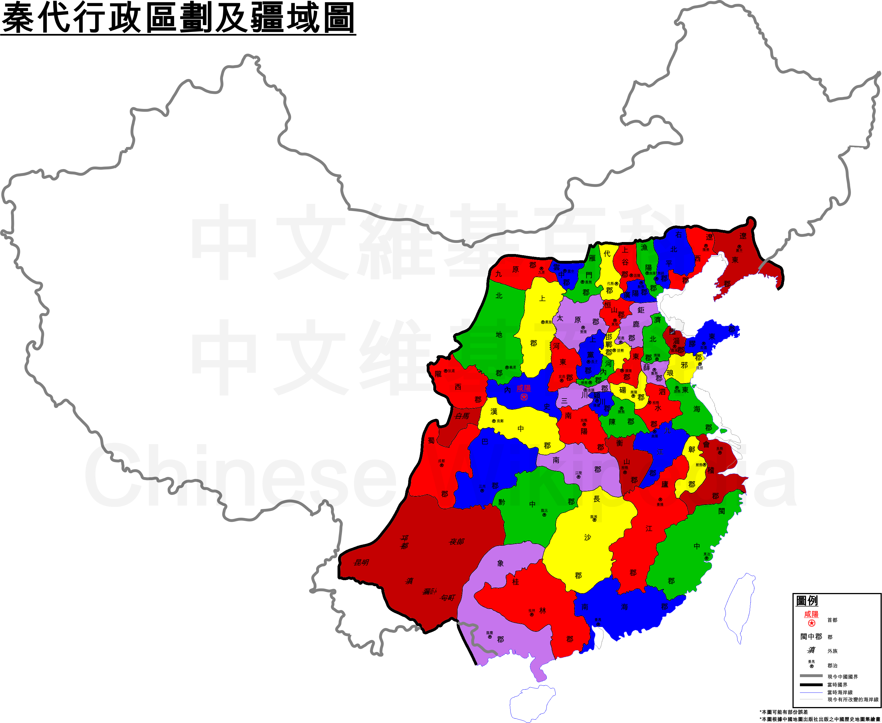 The provinces of China during the Qin Dynasty.